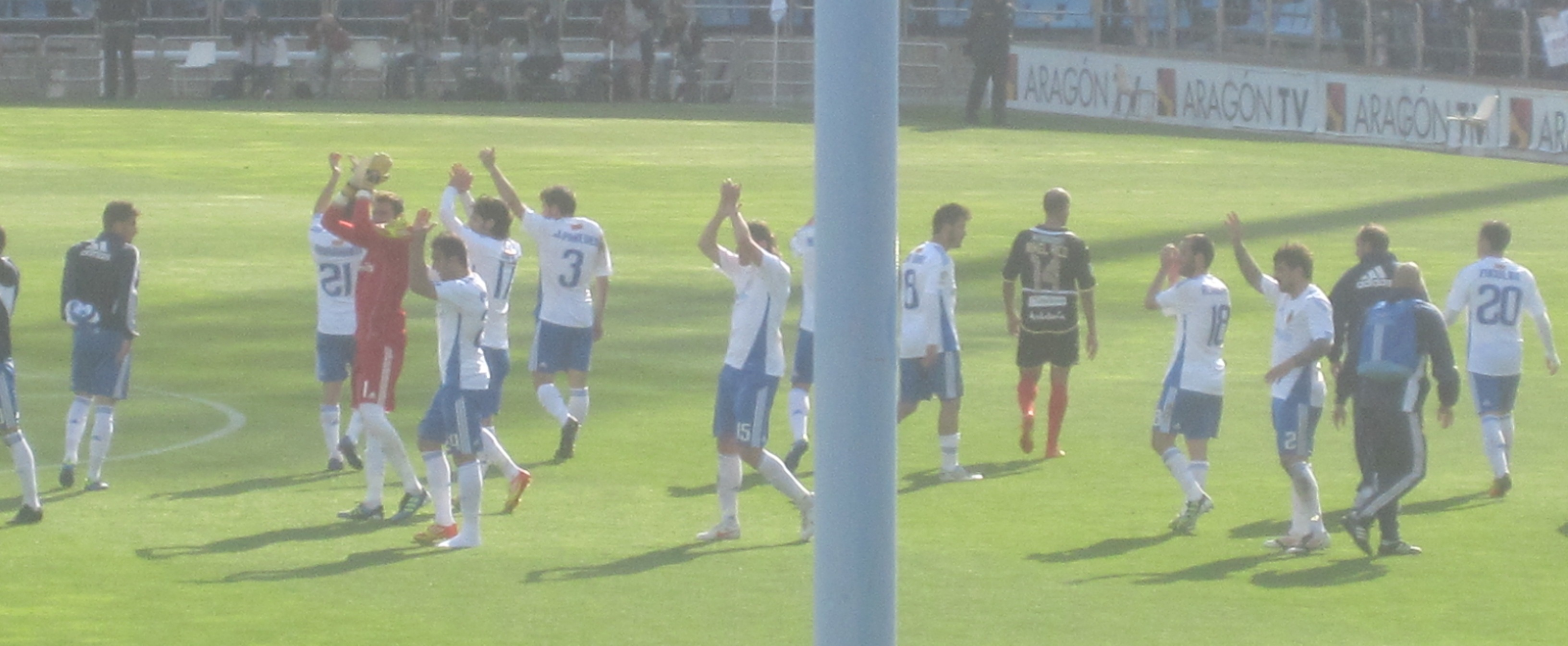 real zaragoza temporada 2011-12